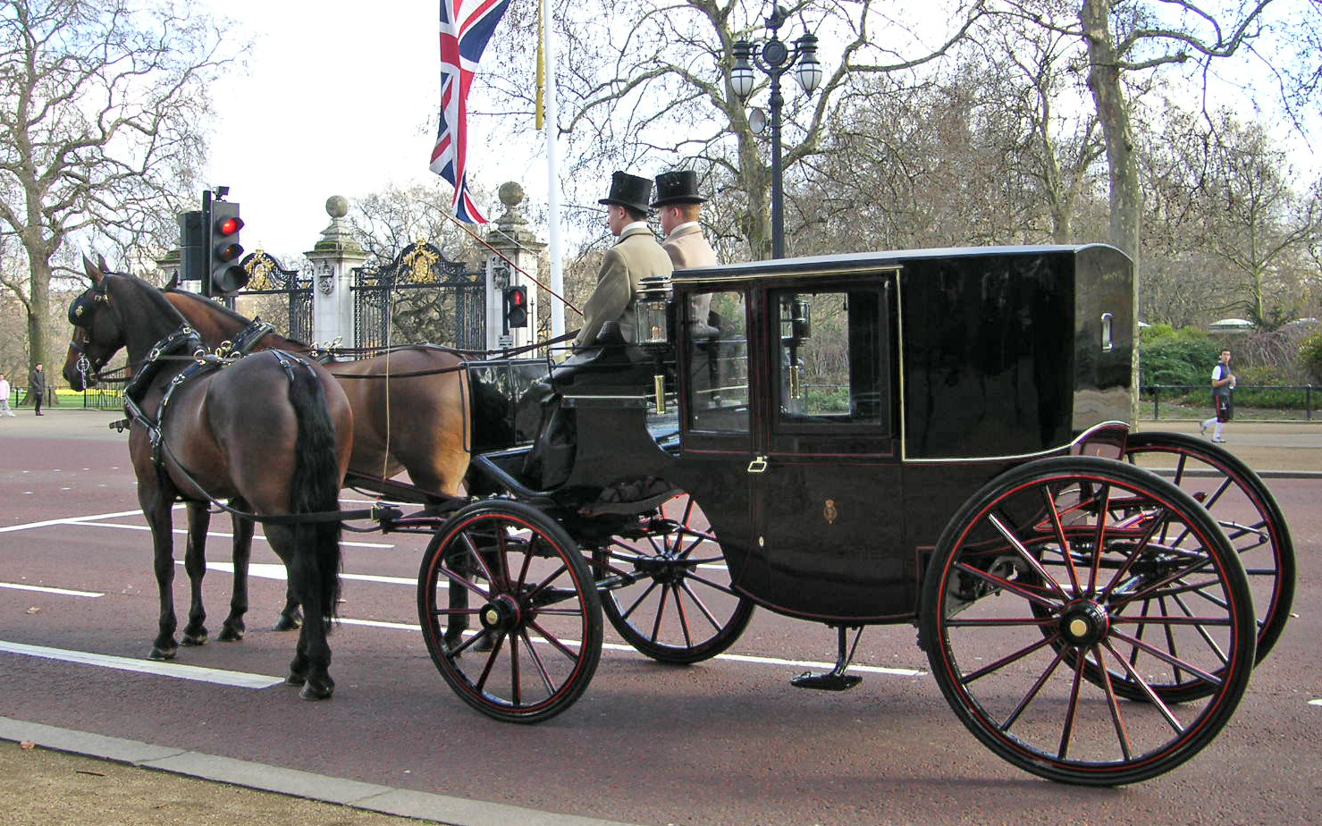 Two of the Queen's Cleveland Bay Horses pulling a coach down the Mall from Buckingham Palace